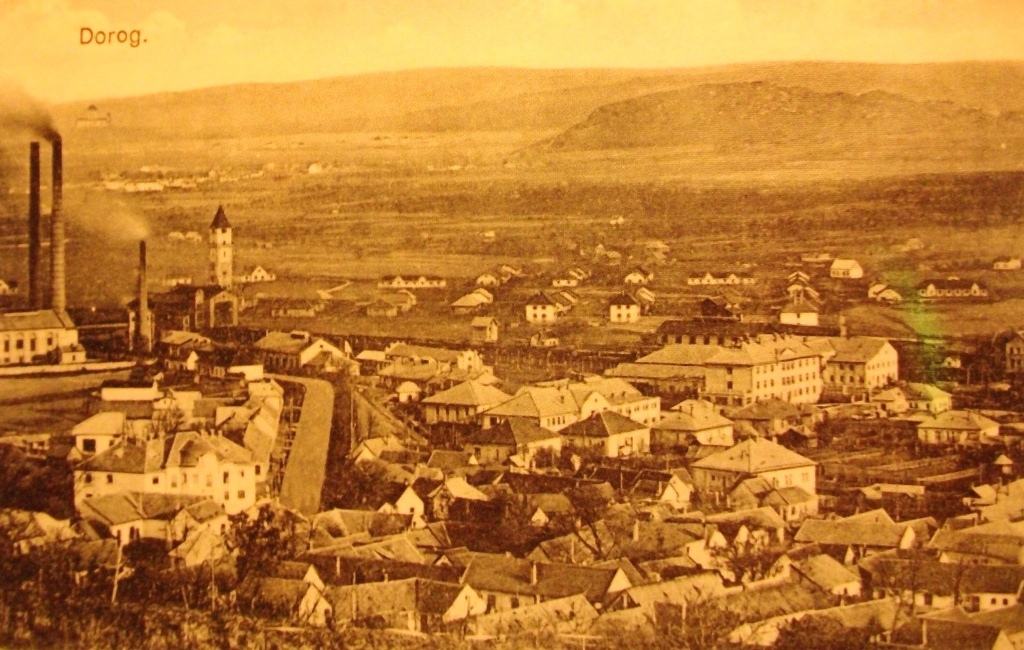 View of Dorog, Hungary in 1927